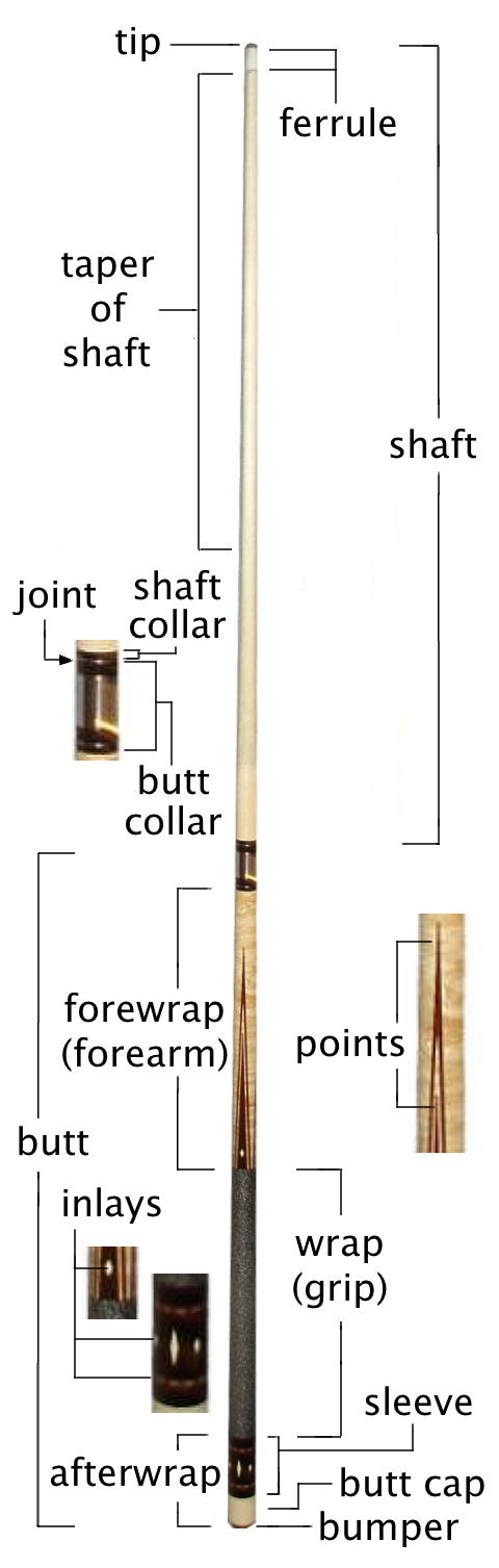 A pool/billiards cue stick with parts labeled.